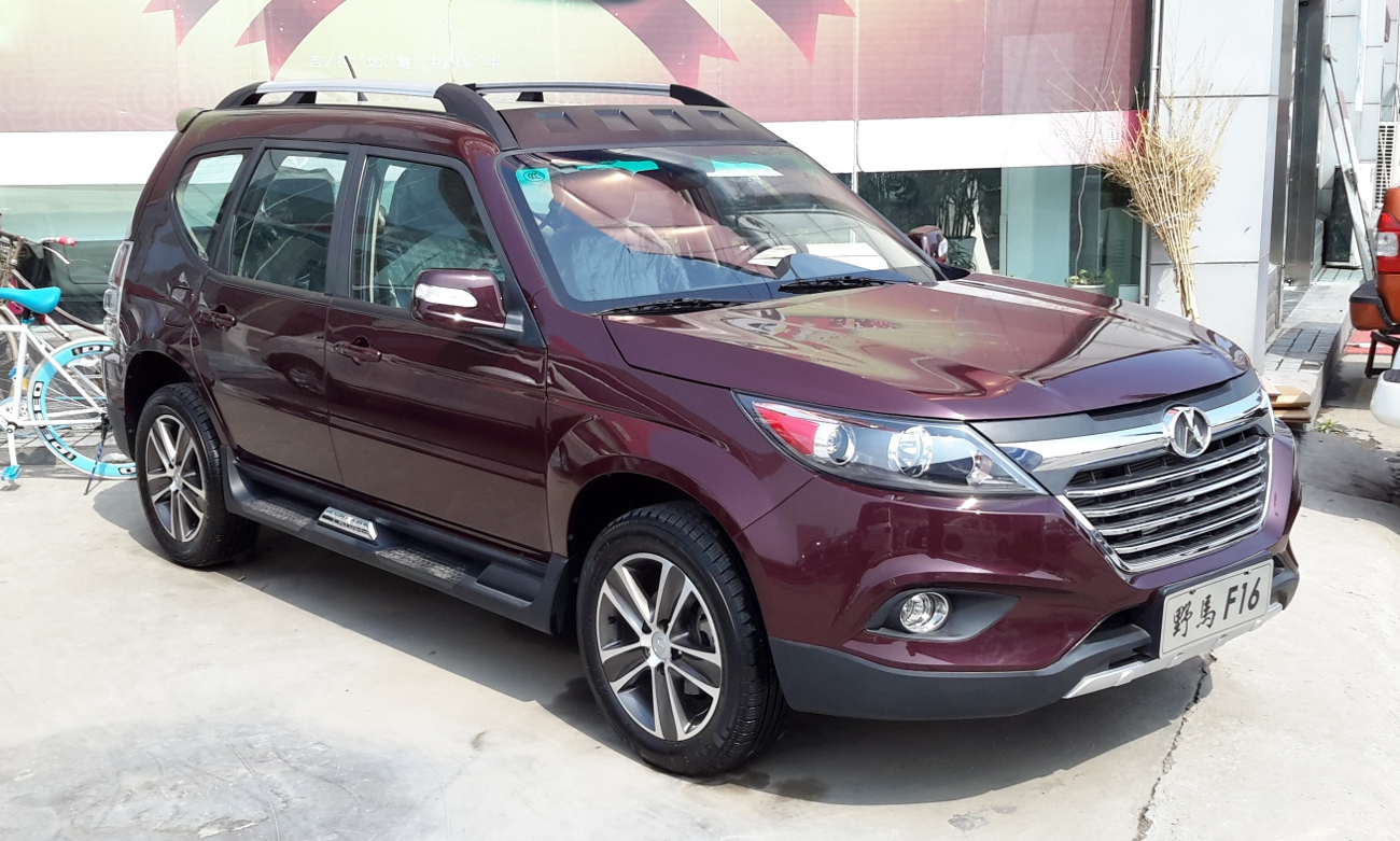 Yema F16 photographed in Xi'an, Shaanxi province, China.